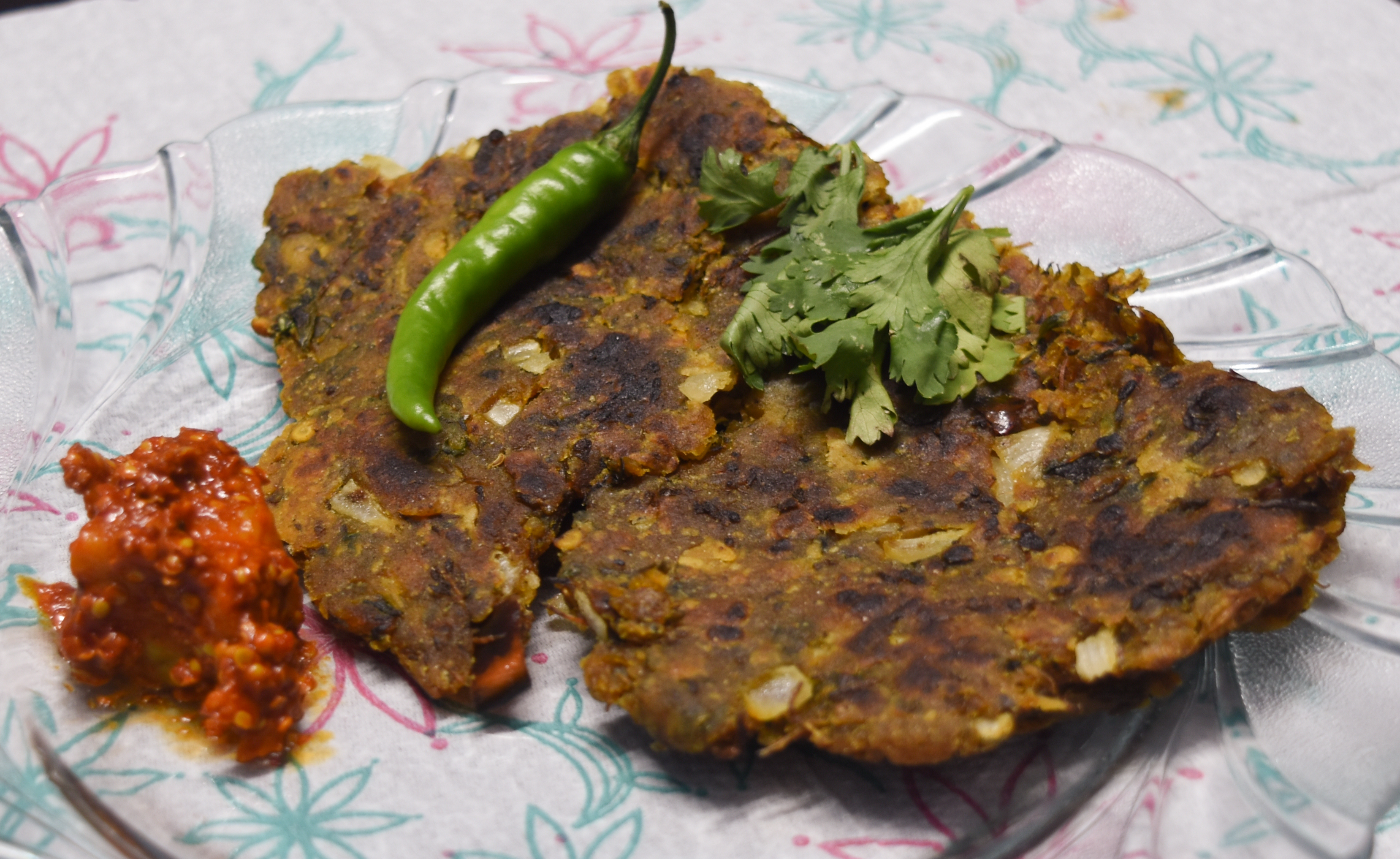 A Maharashtrian Thalipith (थालीपीठ) typical breakfast from Maharashtra, India. Made up of Mix Vegetables, Gram flour(बेसन) and cooked with Whole Wheat Flour(आटा) on pan.